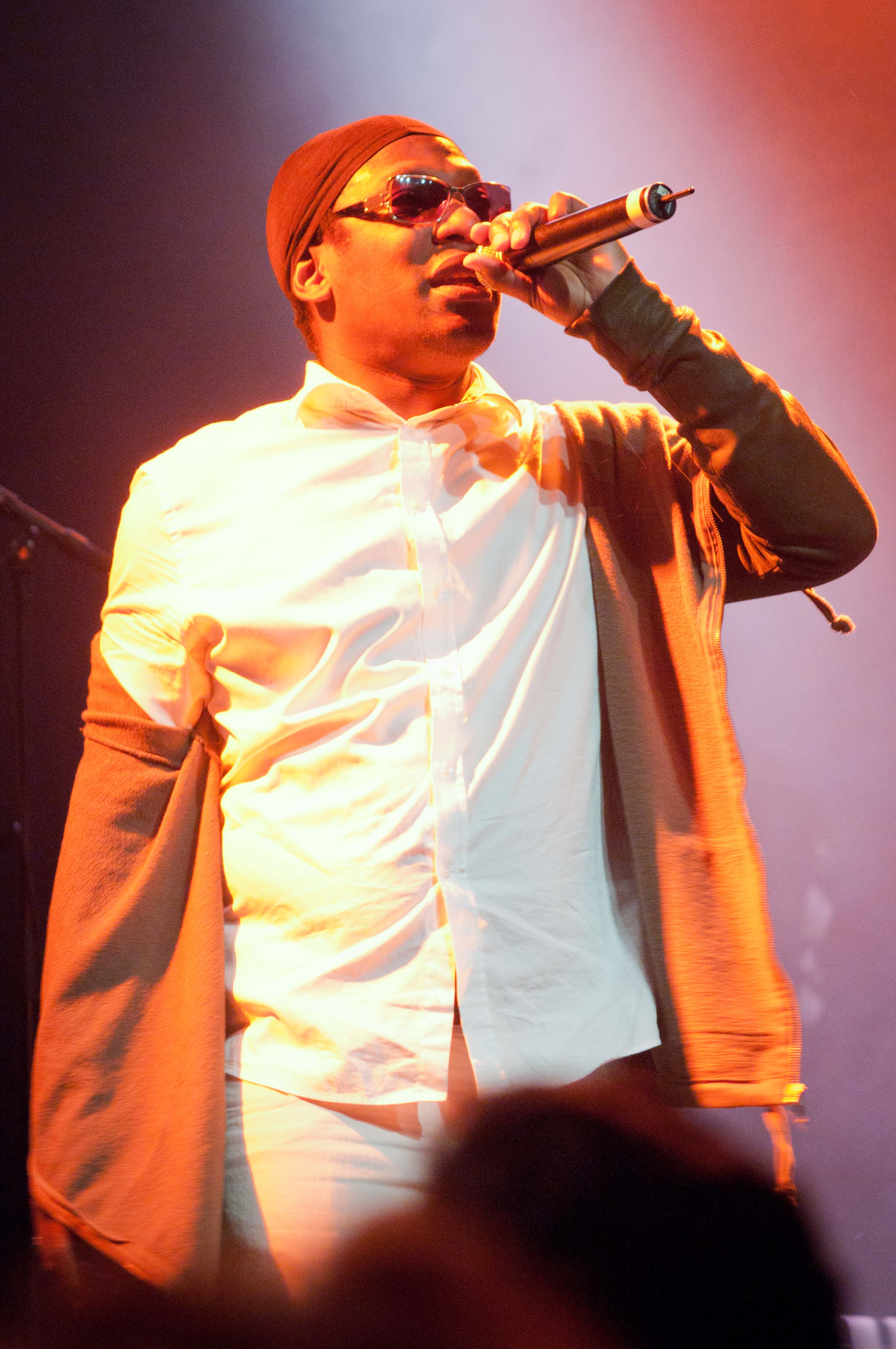 RootsManuvaAnais photography Auckland concert